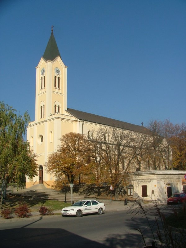 Paks, Hungary, Jesus' Heart Church This is a photo of a monument in Hungary, Identifier: -2961 This is a photo of a monument in Hungary, Identifier: -2878